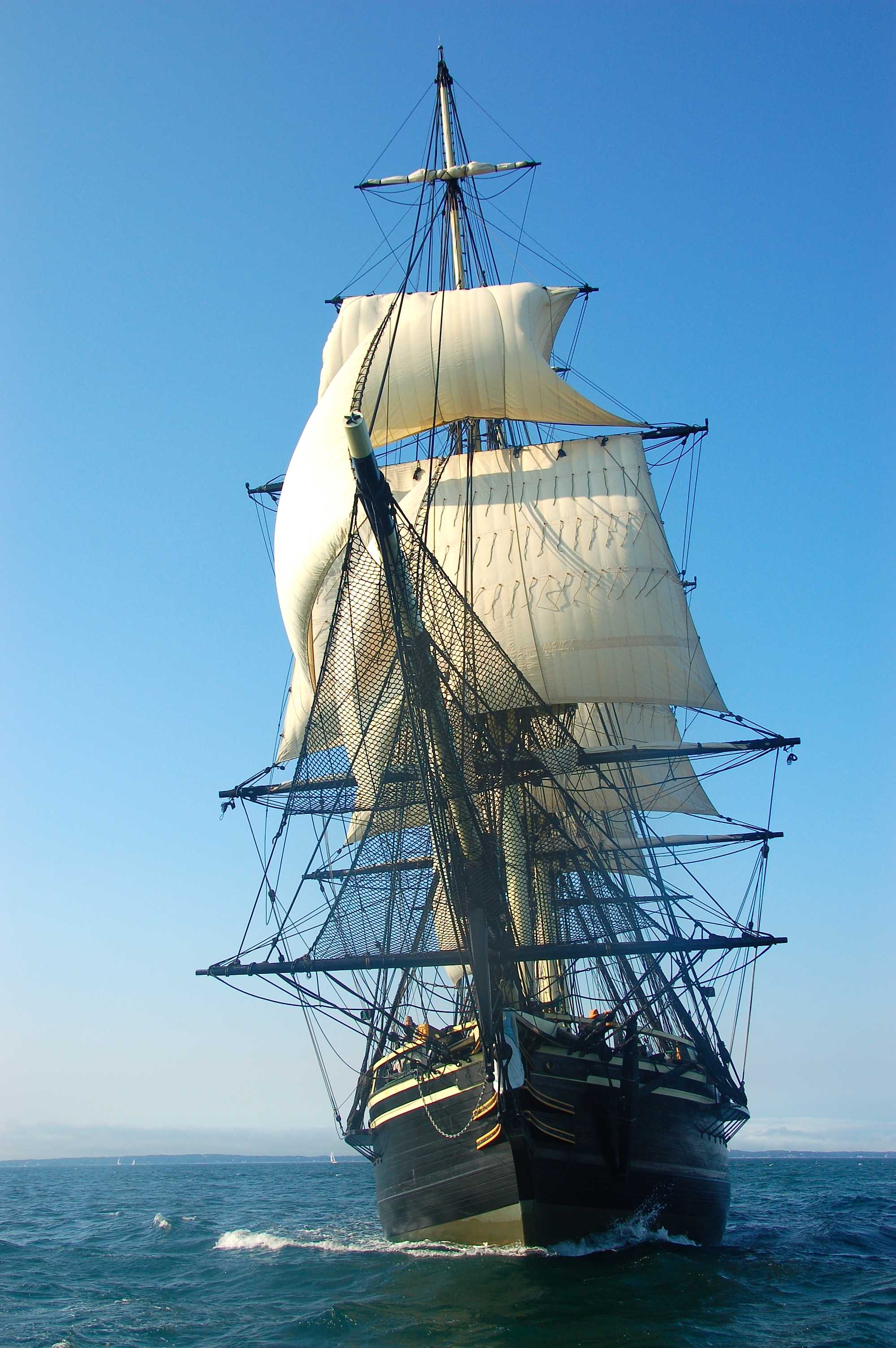 Friendship banner photo DSC_0837